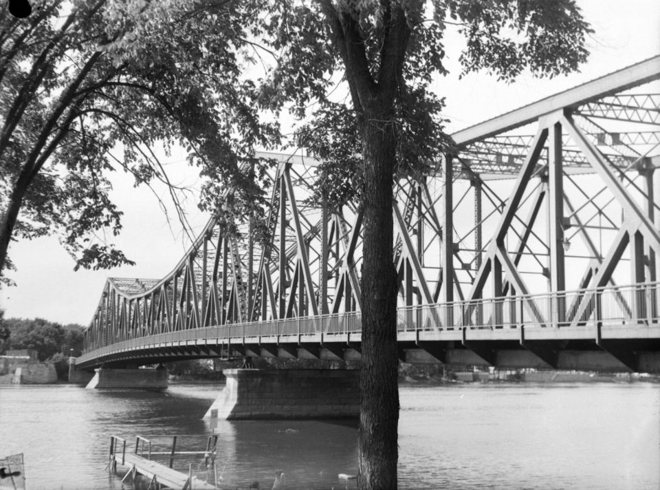 We see the bridge Cartierville, often called the "Lachapelle bridge" between Montreal and Laval.